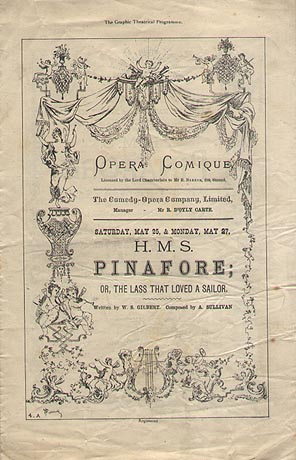 This is the cover image from the theatre programme for the first and second night of the original production of H.M.S. Pinafore at the Opera Comique in London, 25 and 27 May 1878